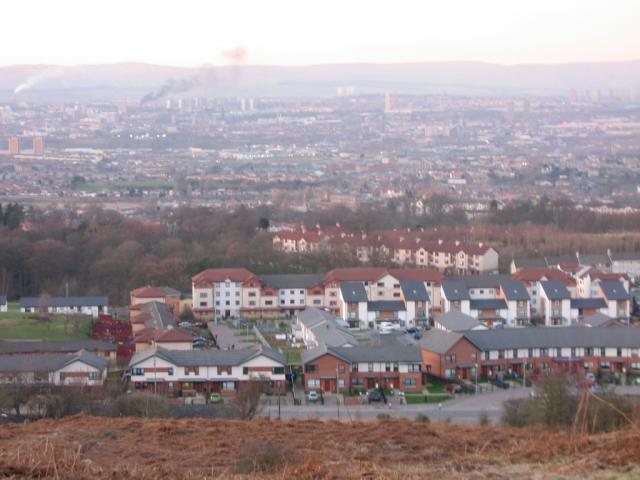 View across to Castlemilk from Cathkin Braes. The views across south Glasgow from here are pretty phenomenal - turn 180 degrees and there's a fair bit of woodland to traipse through from the main road before arriving here.